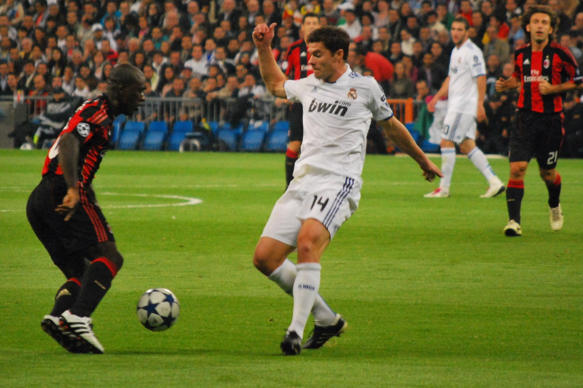 Clarence Seedorf and Xabi Alonso during Real Madrid CF-AC Milan, 2010–11 UEFA Champions League